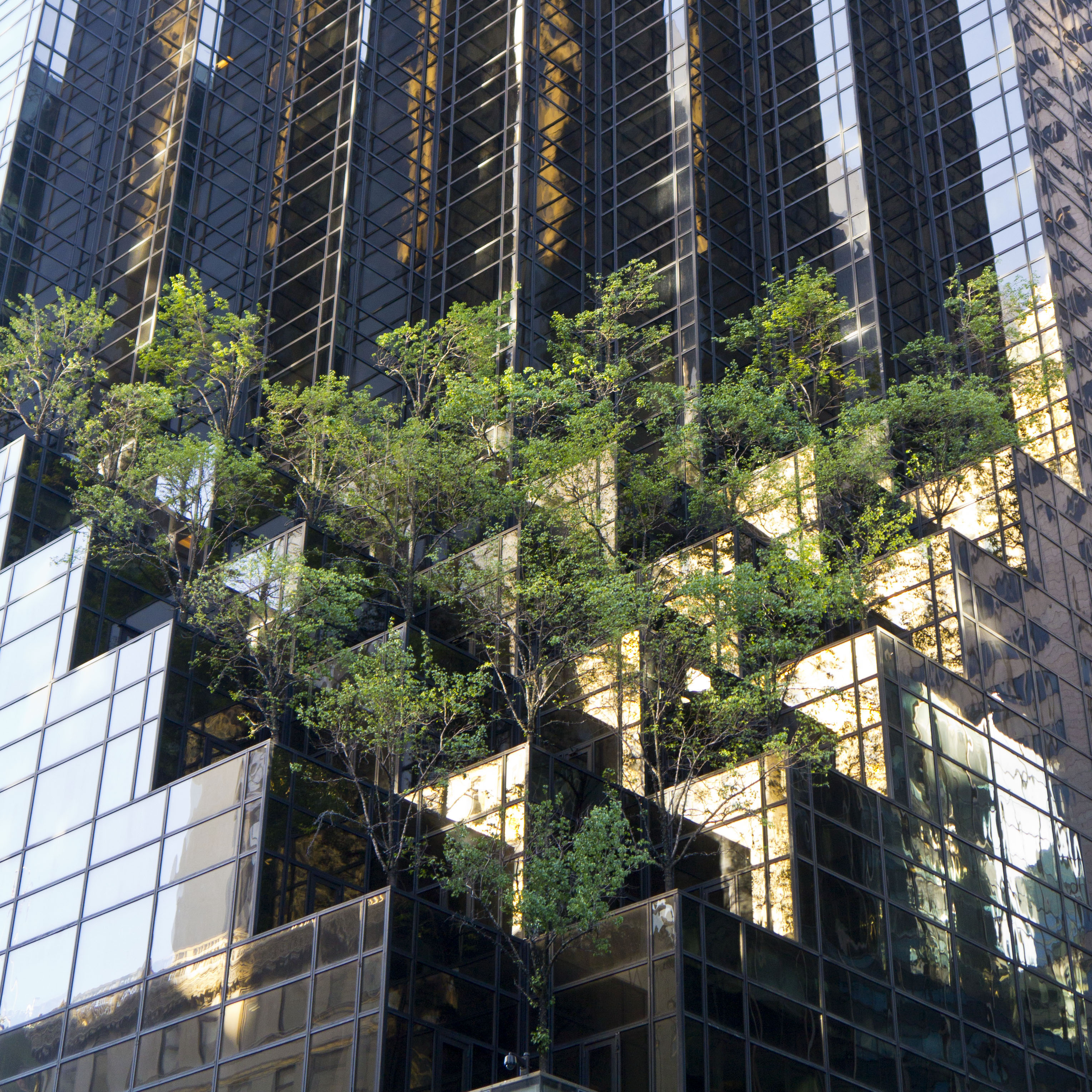 The Trump Tower